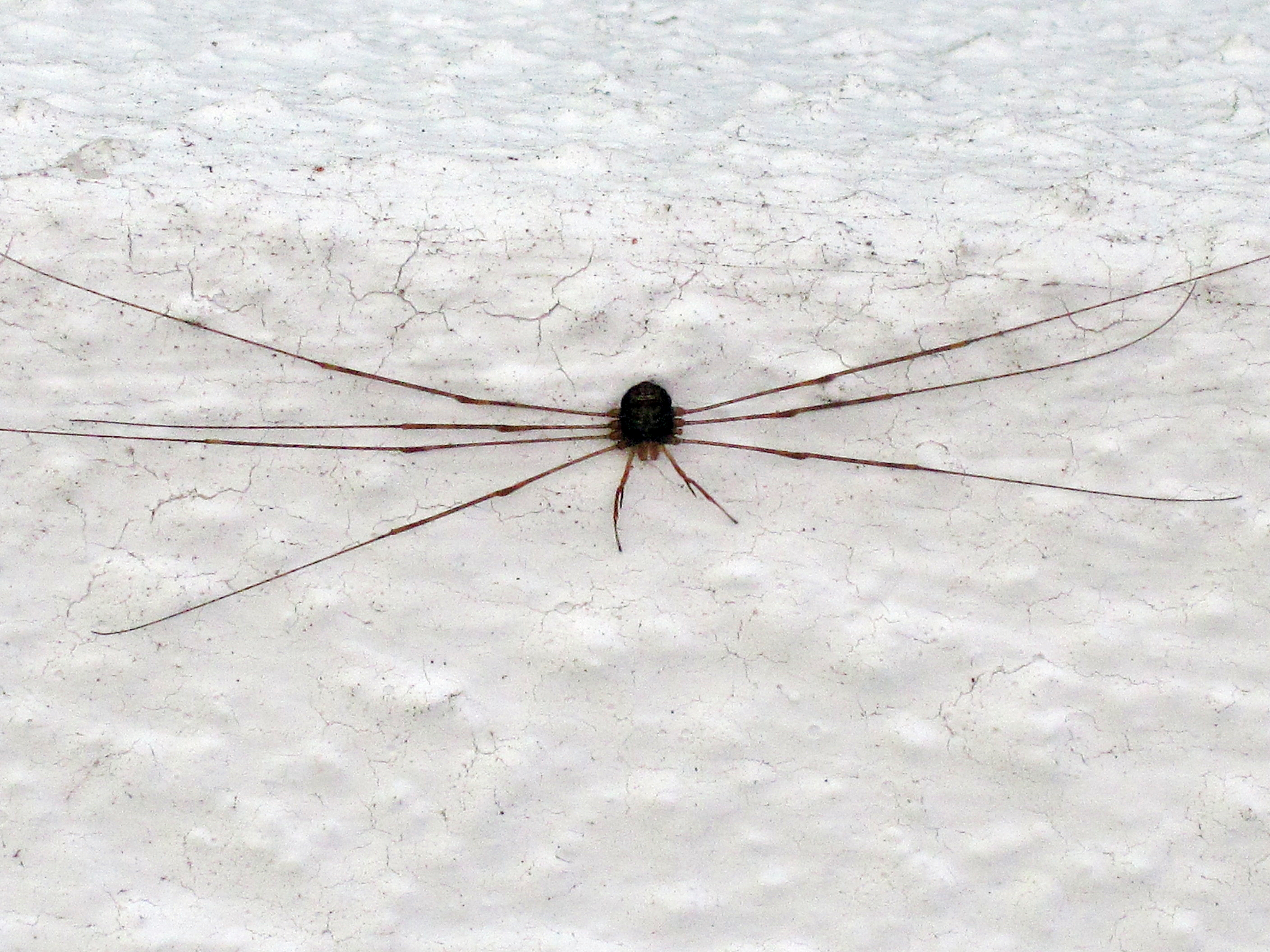 Dicranopalpus ramosus (Harvestman sp.) with one leg missing, Westenschouwen, the Netherlands